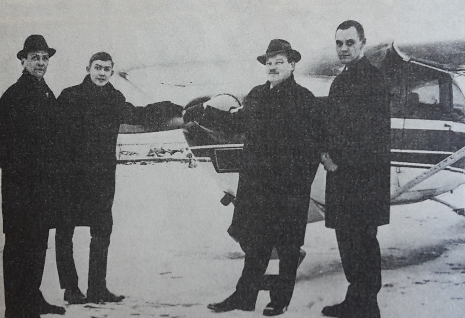 Swedish journalist Erik Martinsson together with expedition members at Bromma Airport 1967 on the way to West Africa. Fr.v. Uno Karlsson (accountant), Kjell Lindberg (pilot), Erik Martinsson (expedition leader) and Rolf Larsson (pilot).